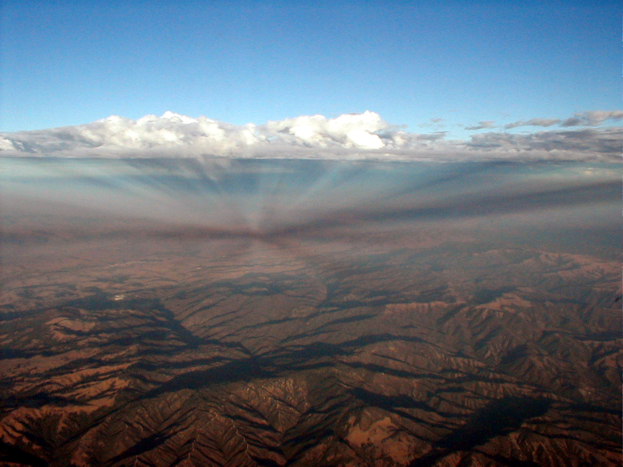 Rare anticrepuscular rays vividly photographed by Craig Gould on a commercial airline flight over Arizona. September 24, 2002